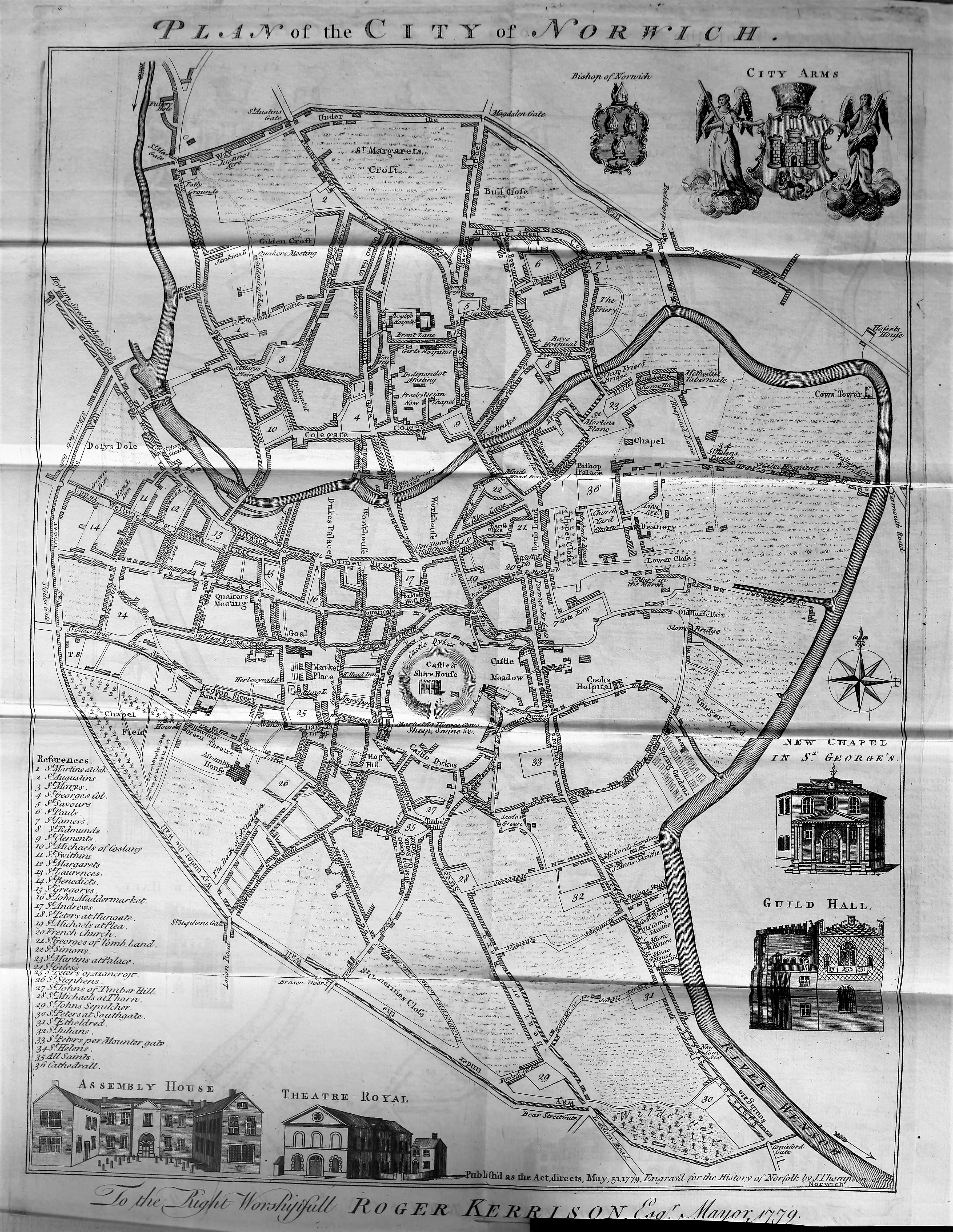 A plan of the English city of Norwich